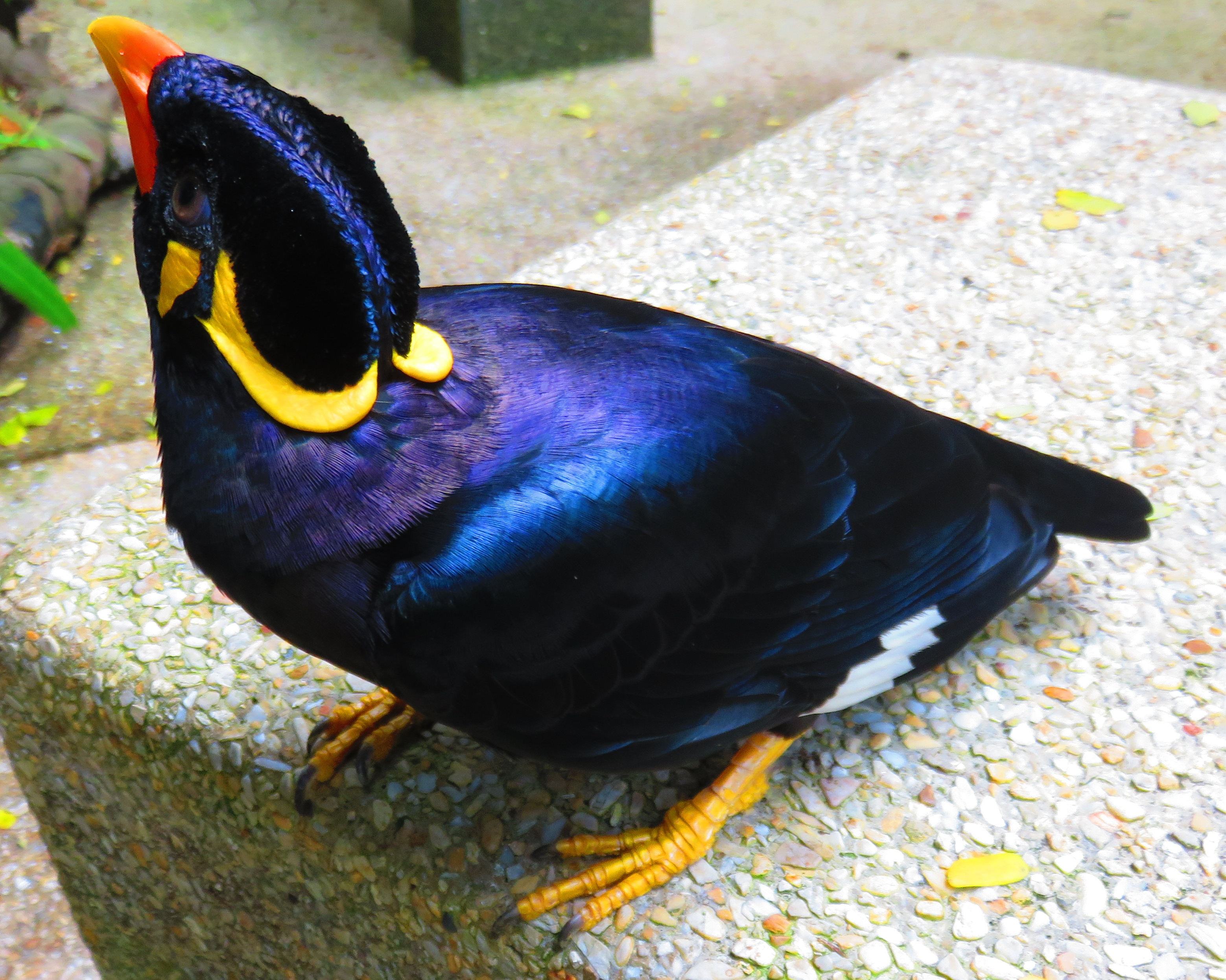 Common hill myna (Gracula religiosa robusta), Jurong Bird Park, Singapore